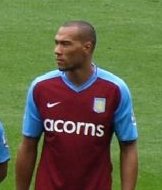 John Carew, Norwegian & Aston Villa footballer